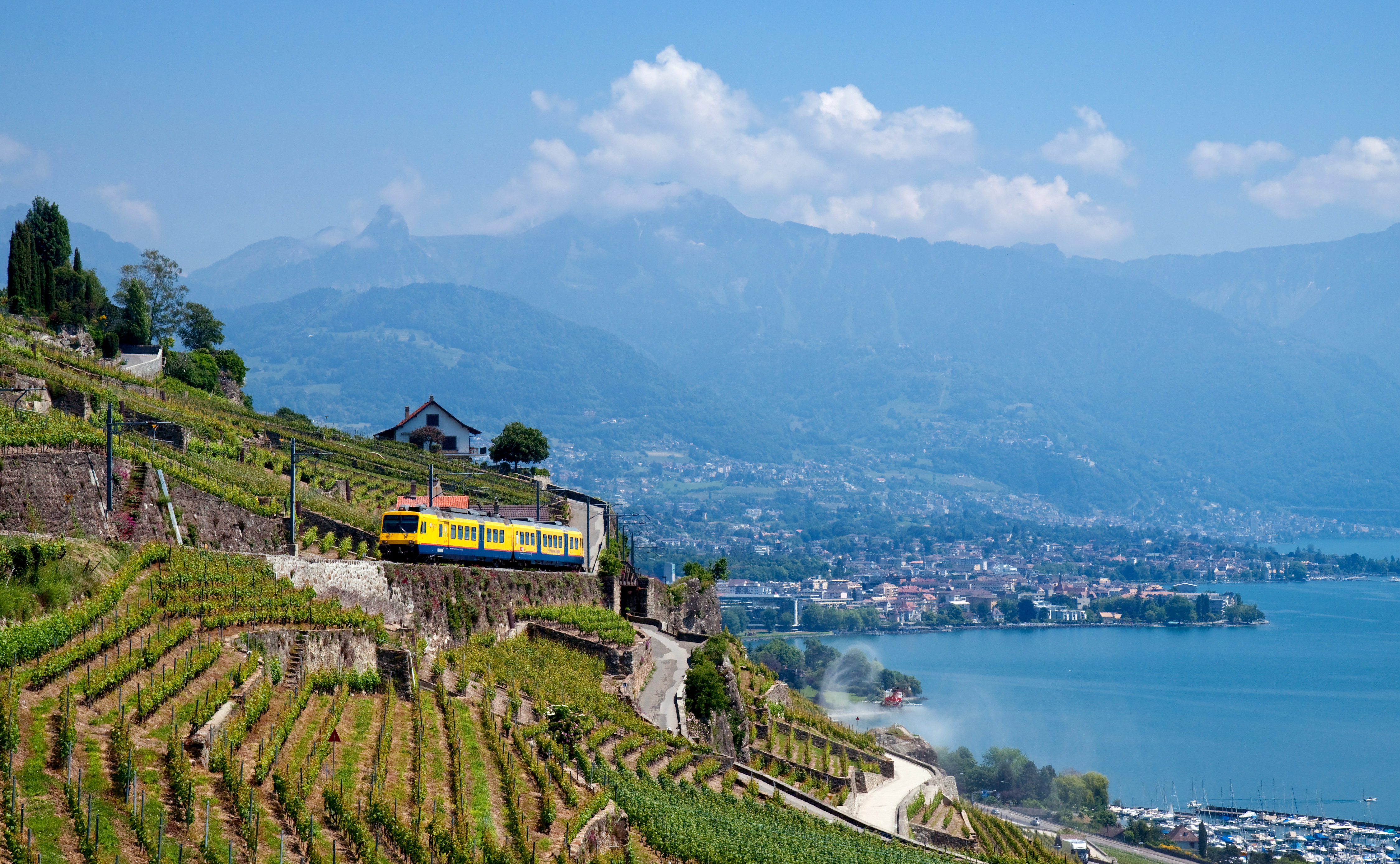 SBB RBDe 560 "NPZ" trainset climbing the Lavaux vineyards. This train (and only this one) carries a special livery and is called "Train des Vignes" ("Train of the Vineyards").